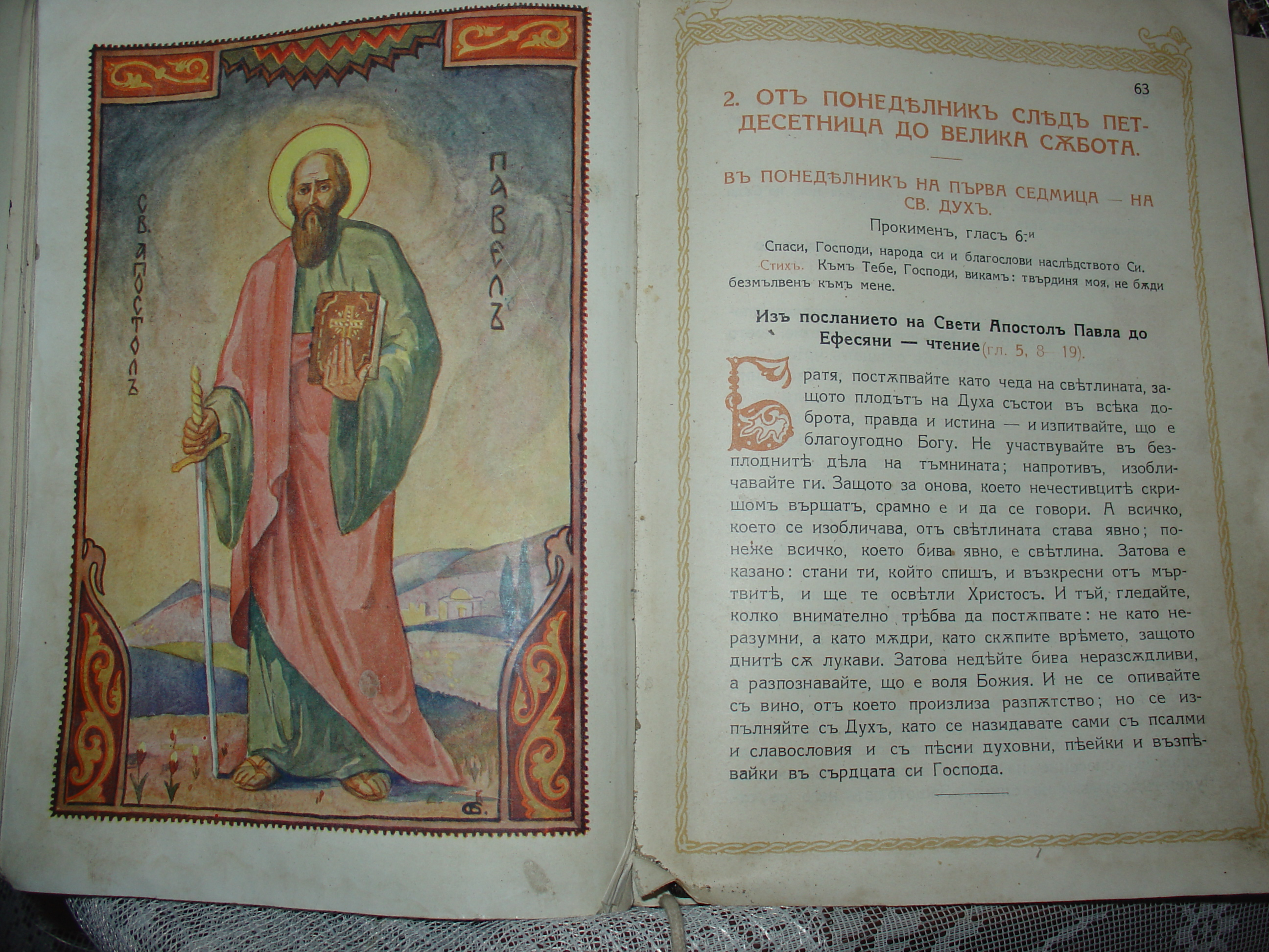 Bible from a Church of Kumanovo village, near by Varna (Bulgary)